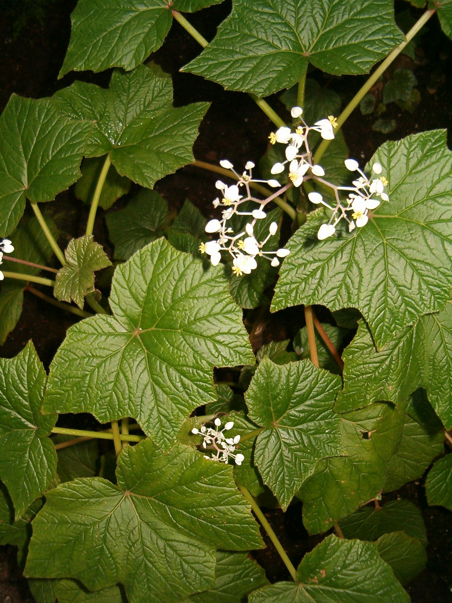 Location: Botanical Gardens Berlin Dahlem Habitus, Leaves and Inflorescence